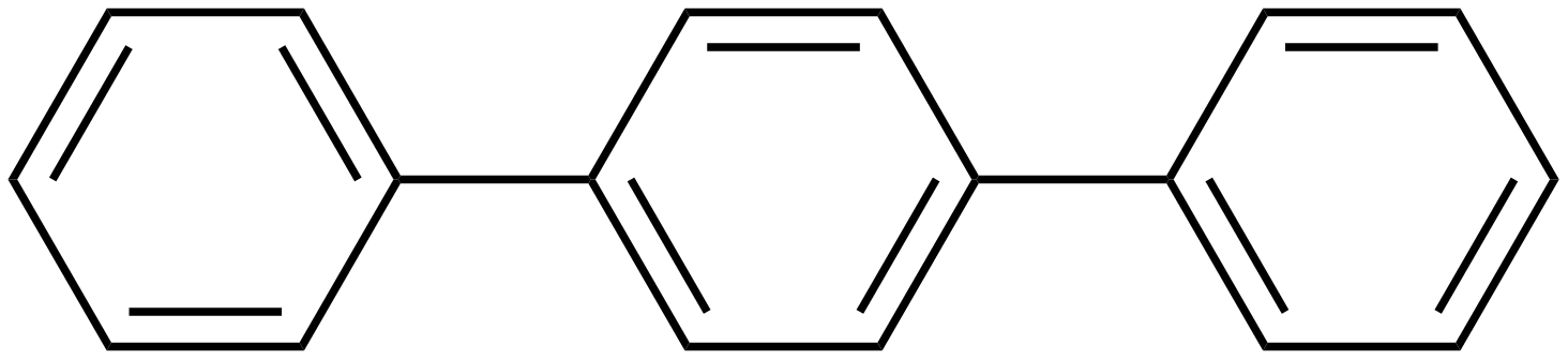 Chemical structure of para-terphenyl (diphenylbenzene, triphenyl